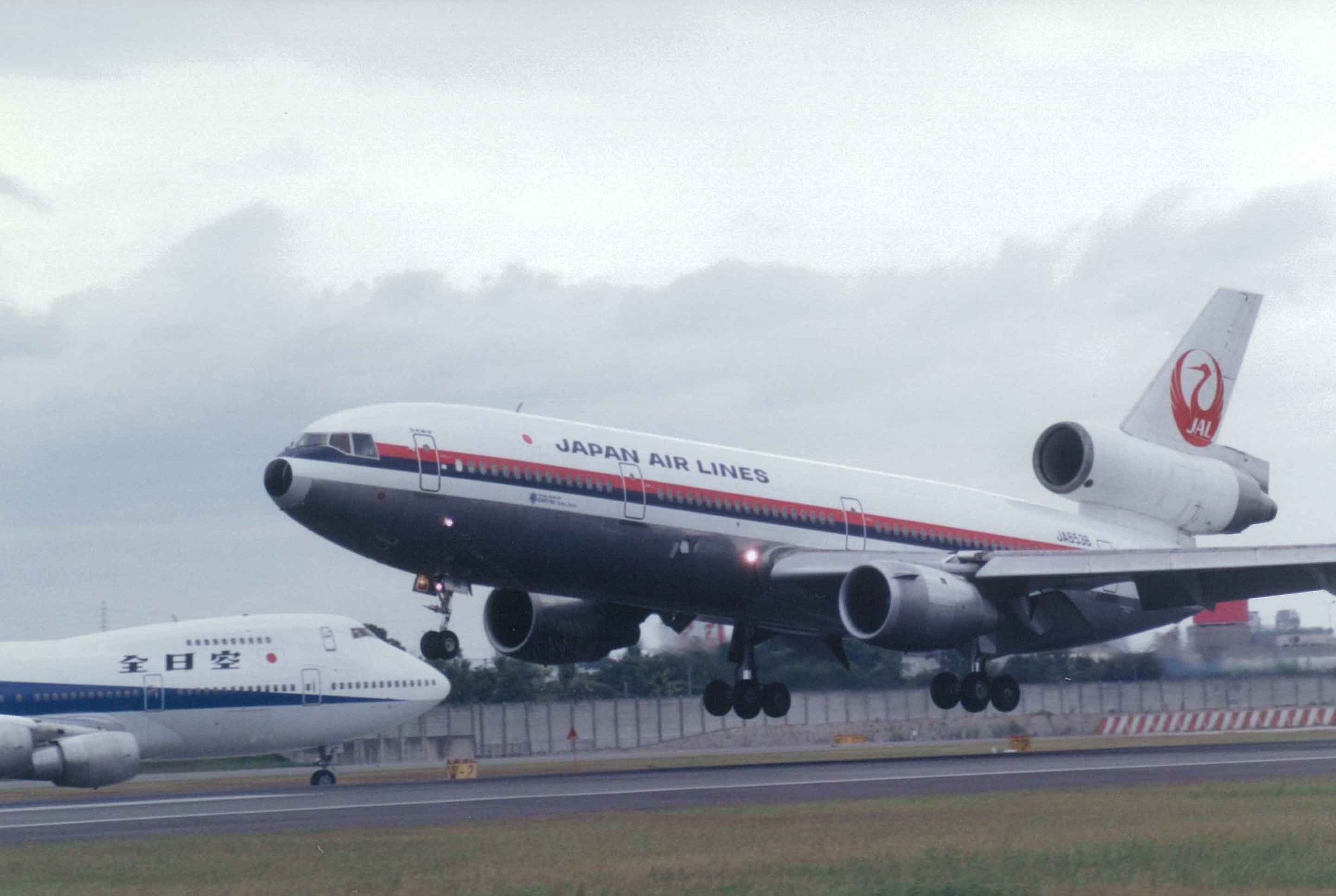 It is JAL which it photographed in Itami, Osaka Airport.